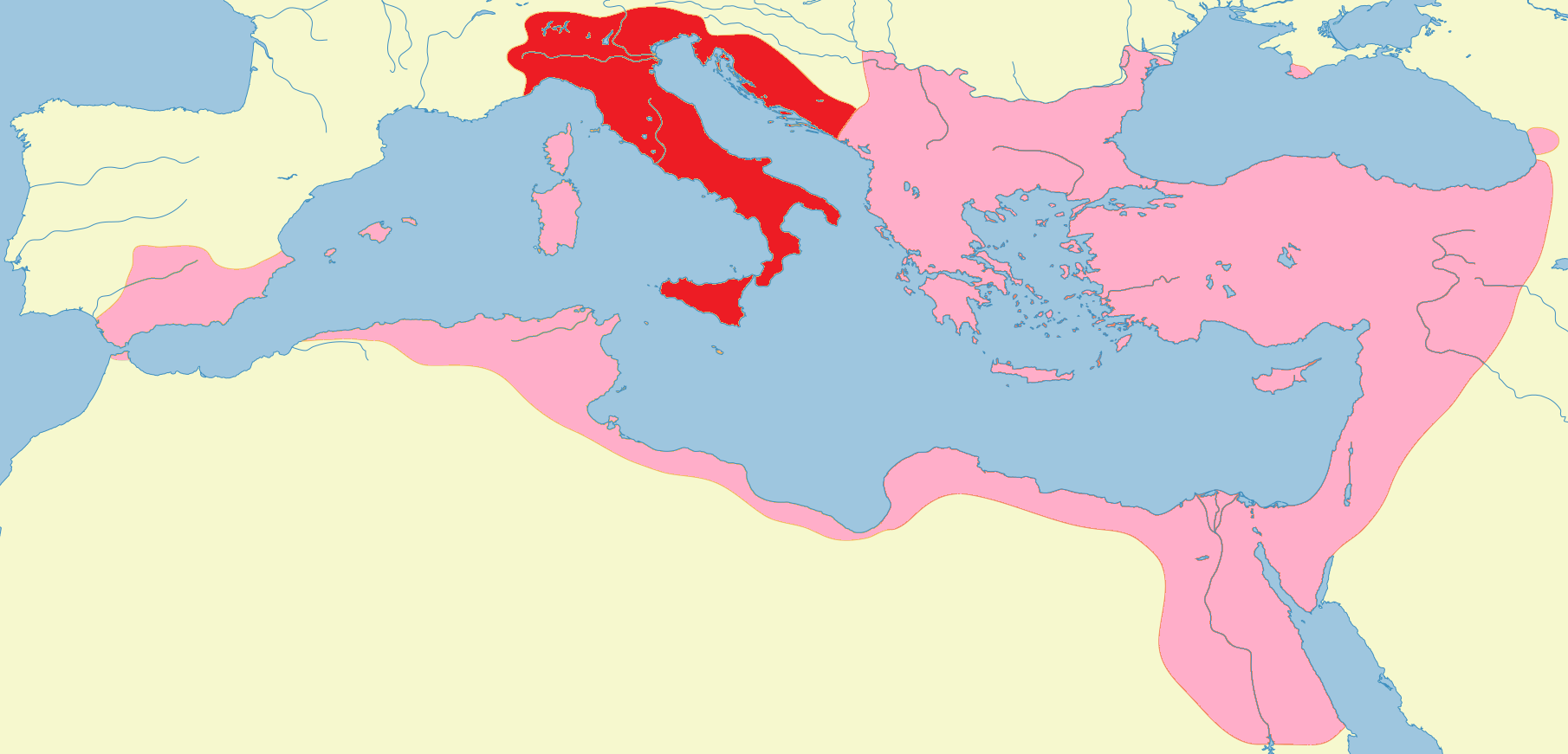 Map of the Exarchate of Ravenna within the Roman (Byzantine) Empire following Emperor Justinian's conquests. Based on